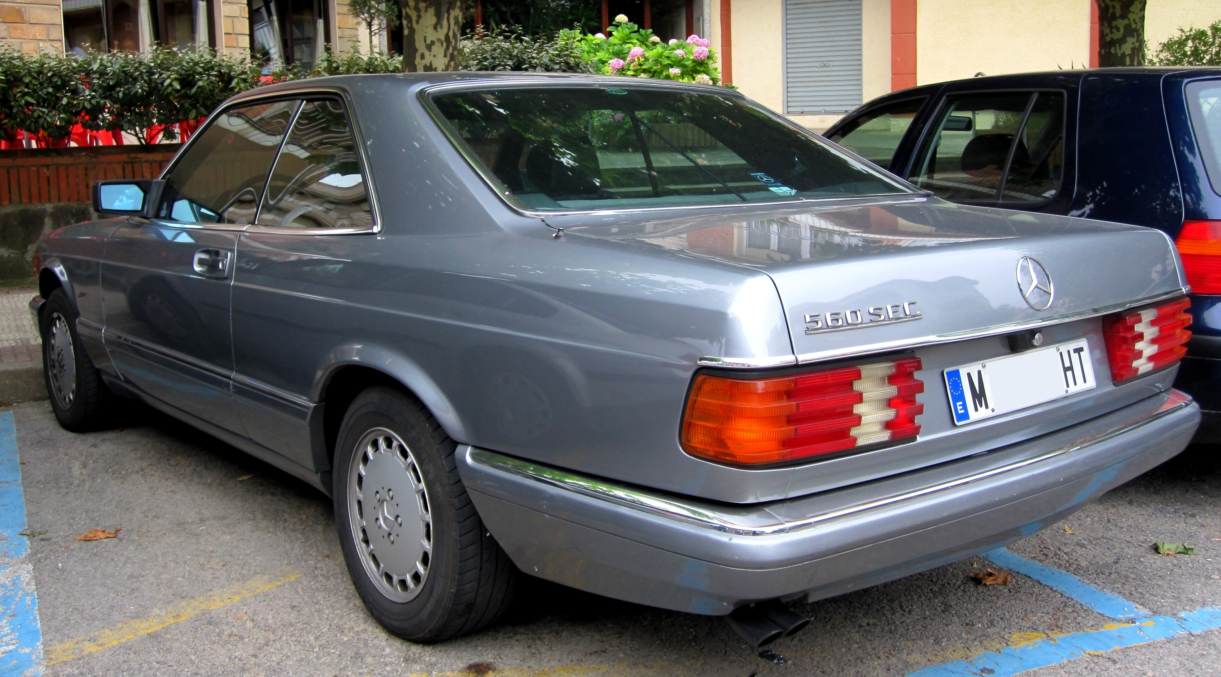 1987 plates from Madrid but seen in Castro Urdiales (Cantabria).